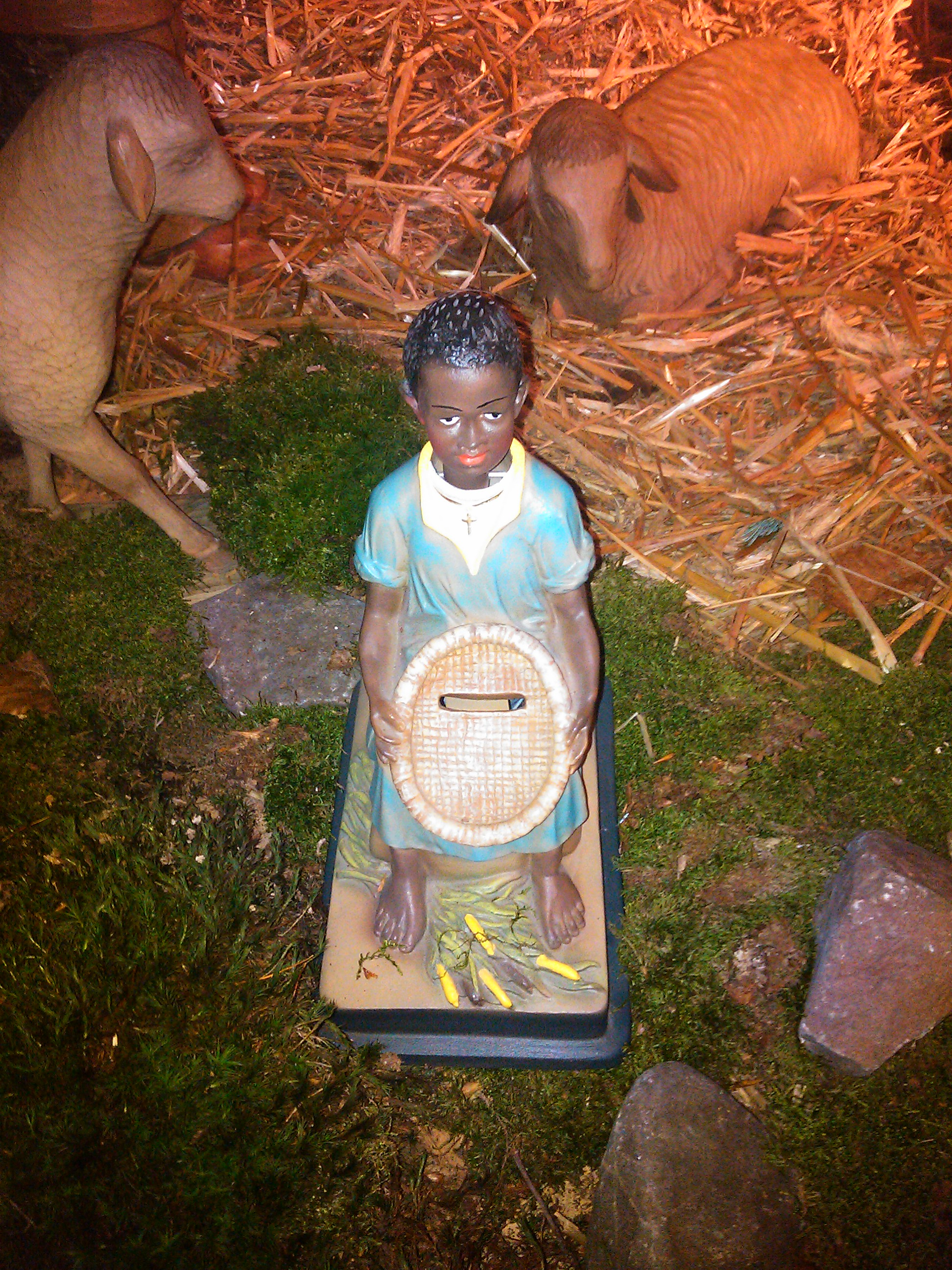 Part of a nativity scene inside St. Joseph's Hanover, Germany. When you put a coin into this racist figure, it shakes its head.